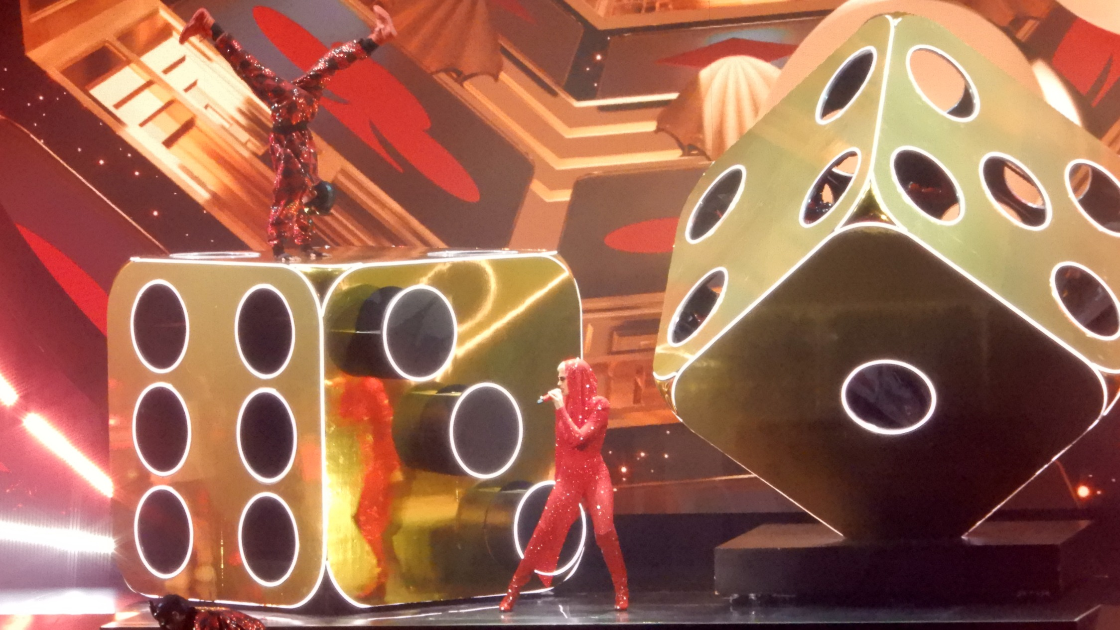 Katy Perry at Madison Square Garden